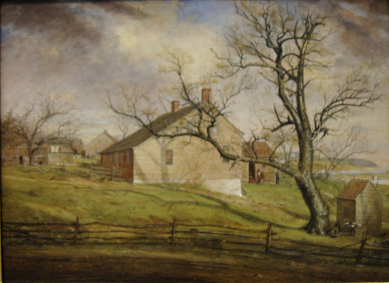 Long Island Farmhouses by William Sidney Mount, 1862-63, oil on canvas, Metropolitan Museum of Art, accession 28.104